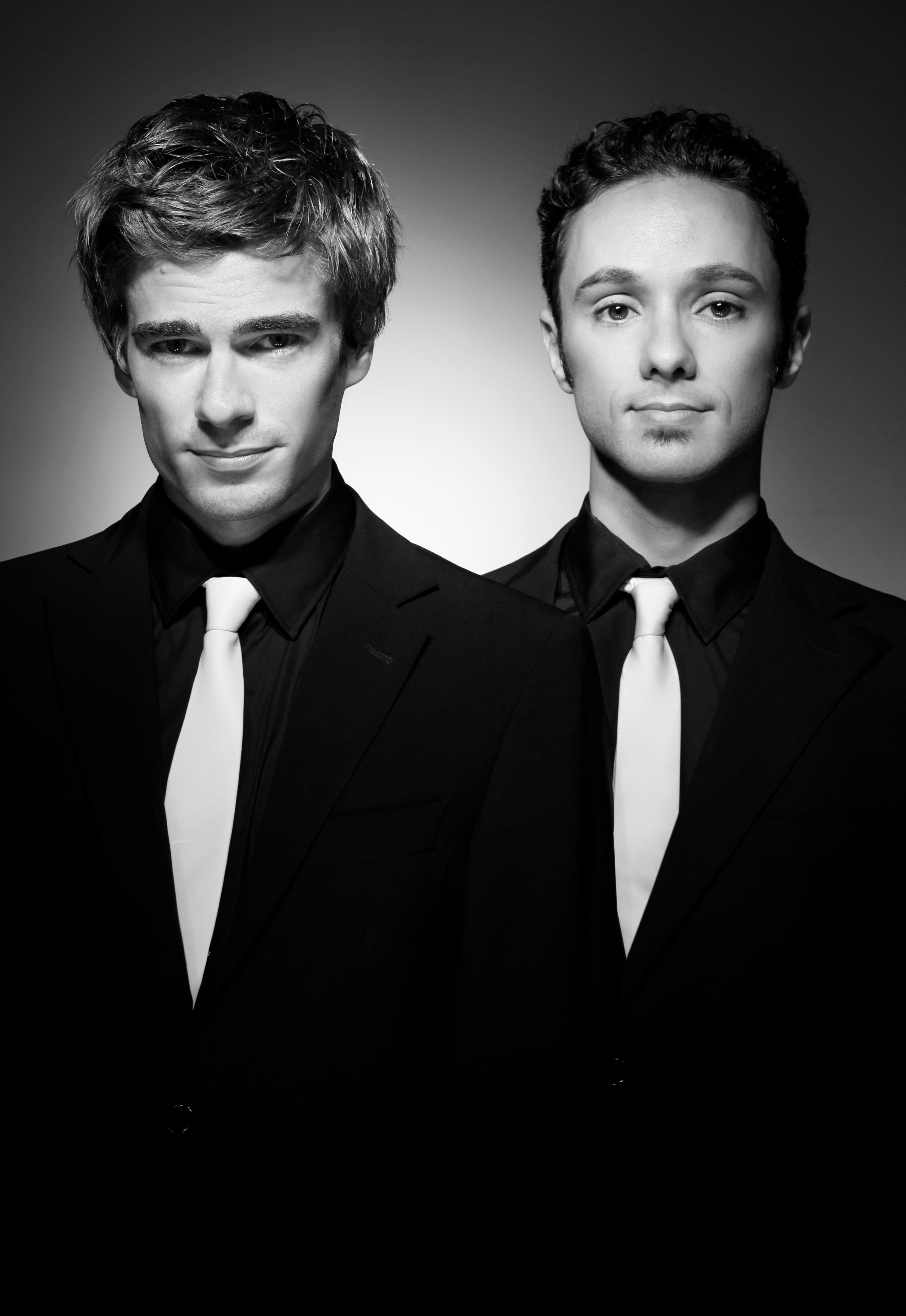 Ta na manga: magicians Pedro Teixeira (left) and Goncalo Jorge (right)